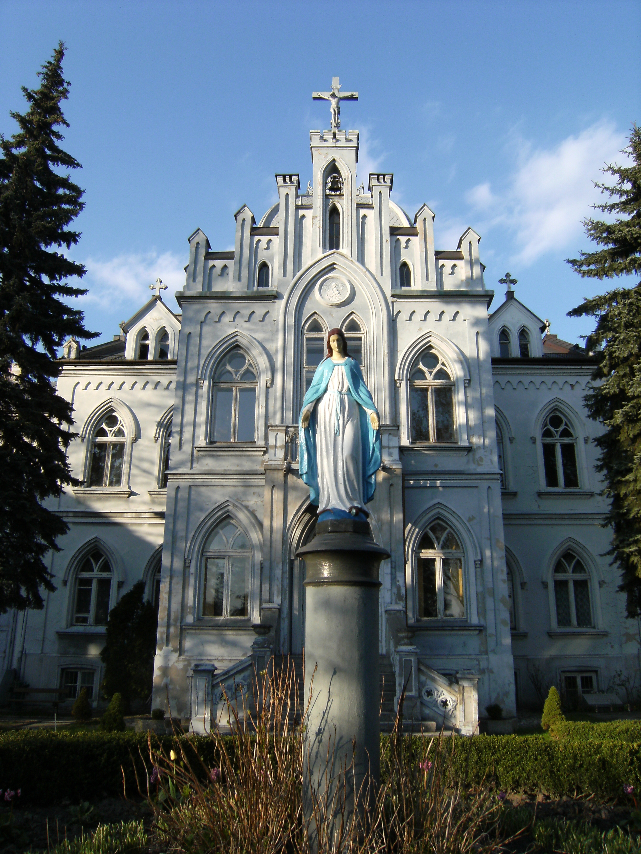 Garden neibour Old Catholic Mariavite Temple of Mercy and Charity in Plock